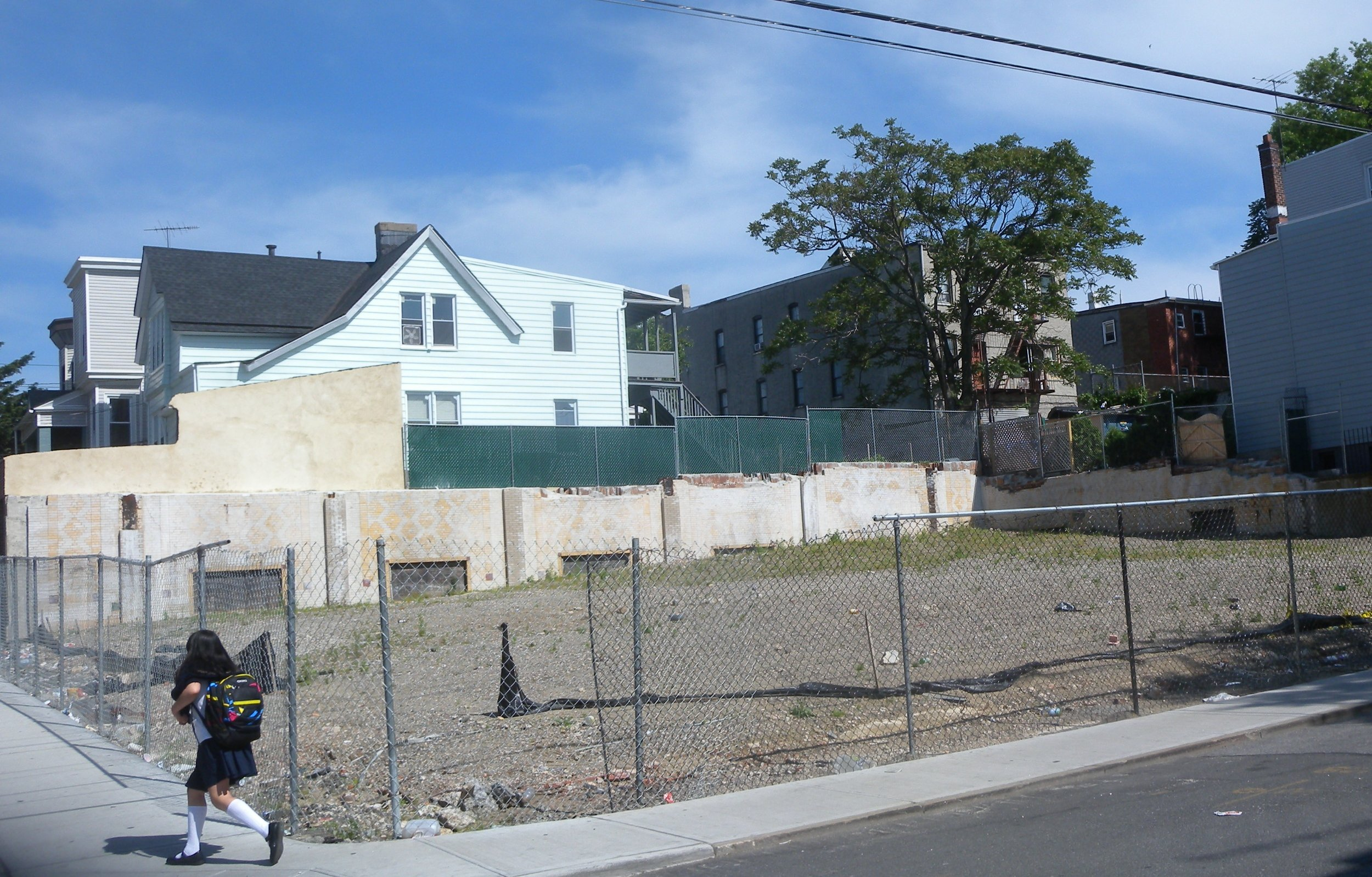 Looking east across Linden Street at former Bath House 4 on a sunny afternoon.